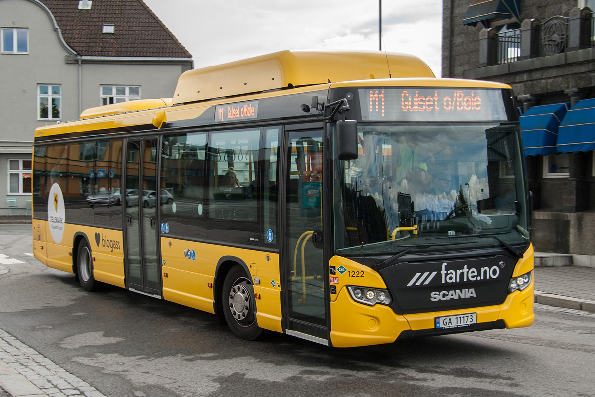 Scania CK 280 UB4x2LB CNG Citywide LE 12.0 on Farte route M1 operated by Nettbuss.